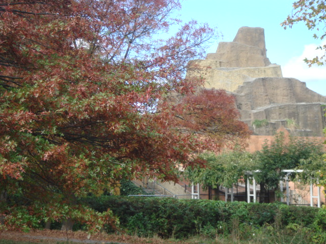 London Zoo The old elephant enclosure, seen from Regent's Park, which now houses camels and llamas. Having kept elephants in London Zoo for 170 years the Zoological Society of London decided that the space was no longer suitable for them. In 2001 the 3 resident elephants were moved to Whipsnade (London Zoo in the country).